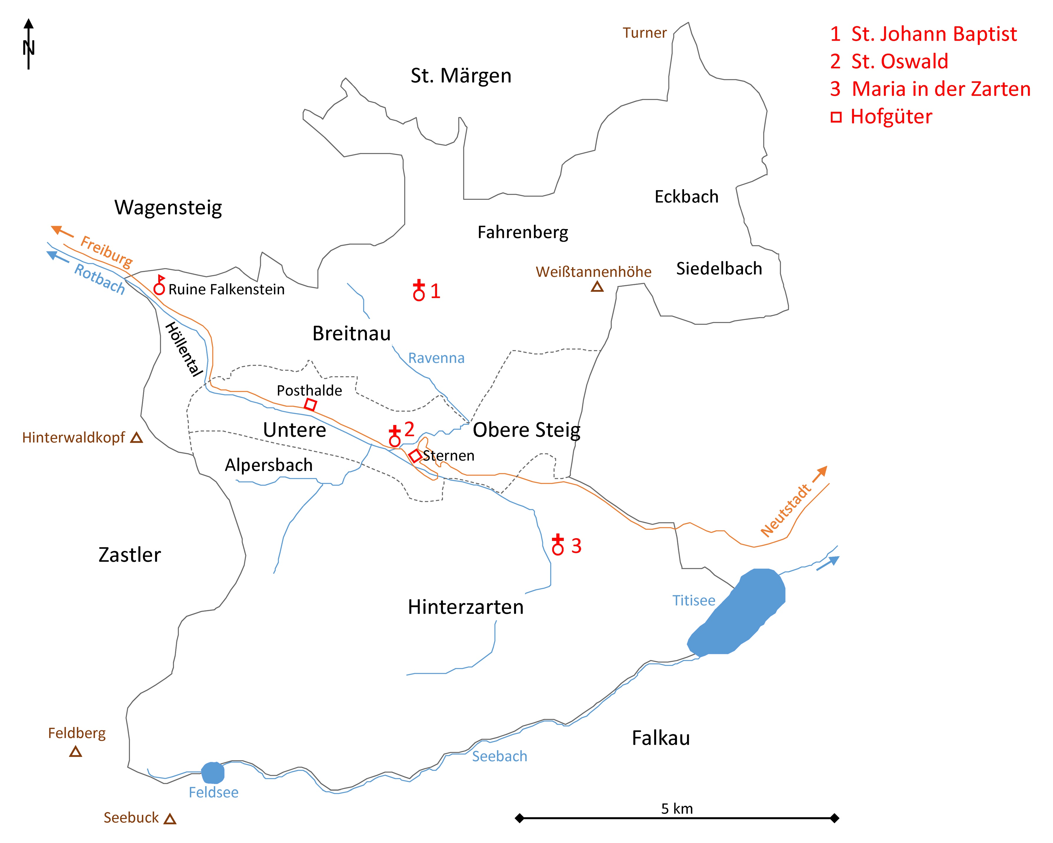 Parish of St. John, Breitnau, Baden-Württemberg. Historical map. Based on Ekkehard Liehl: St. Oswald im Höllental und die Errichtung der Pfarrei Hinterzarten im 18. Jahrhundert. In: Alemannisches Jahrbuch 1957, S. 273–296